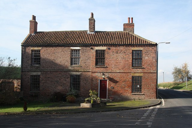 Ferry House, Little Reedness, East Riding of Yorkshire, England.Former inn at Little Reedness, an early 18th century house with tie bars dated 1778, now a private house. During its history it has been variously known as The Angel Inn, The Ferry Inn and Ferryman's Cottage, with a boathouse by the road on the river side occasionally functioning as a makeshift mortuary for bodies pulled from the River Ouse. Local tradition holds that the body of a murderer executed at York was hung in a gibbet by the yard to the south on Church Lane. [Many thanks to Lorraine Cottingham for information]